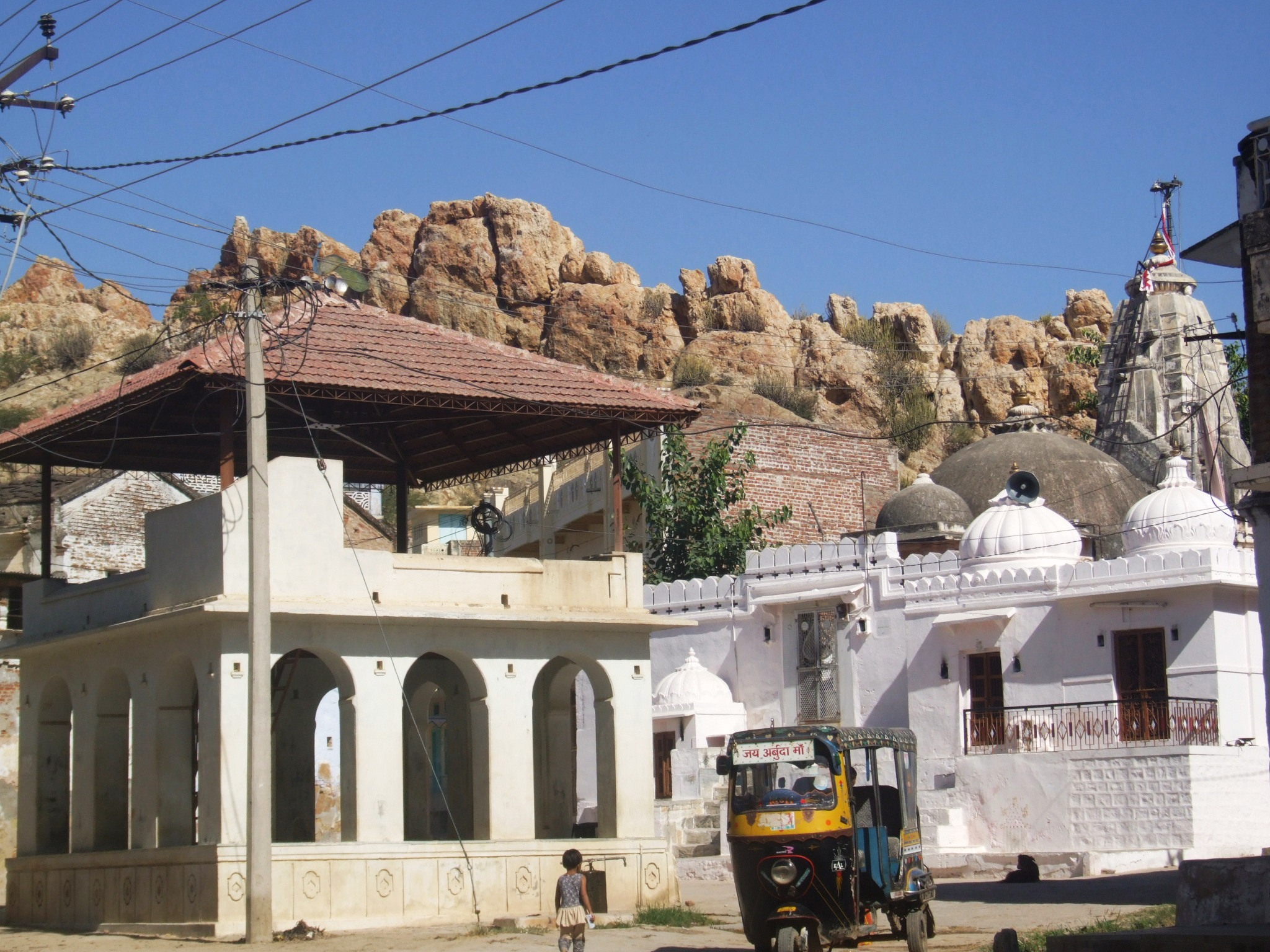 Bamnera midst point